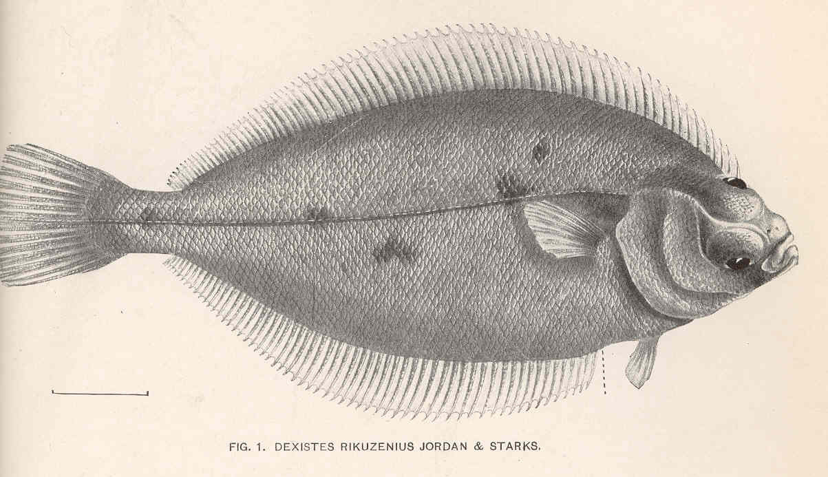 Dexistes rikuzenius Jordan & Starks Subject: Dexistes Tag: Fish